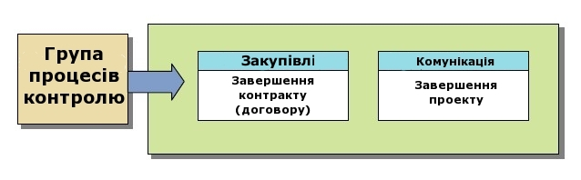 Closing Process Group Processes